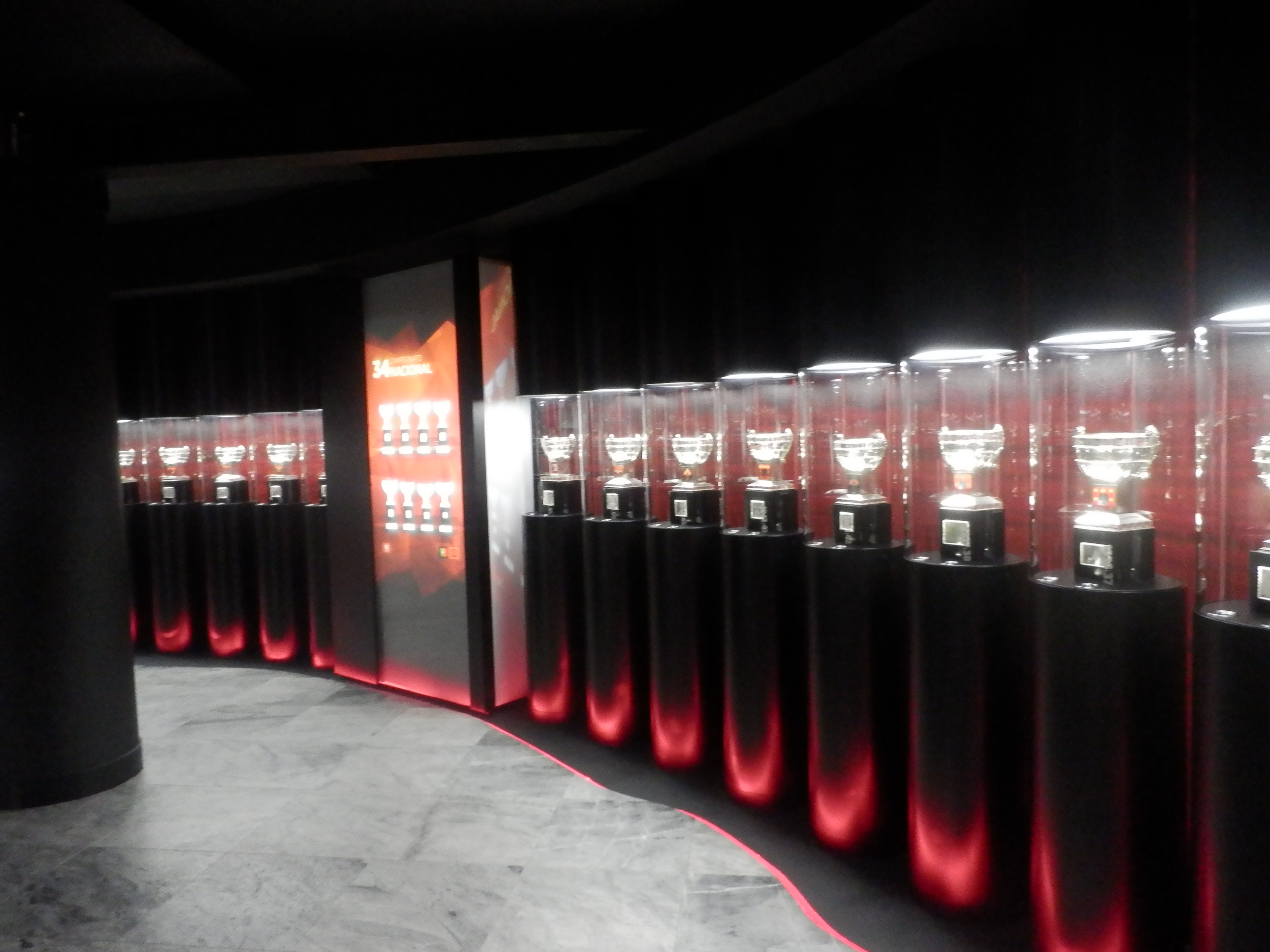 About 13 of the club league titles shown